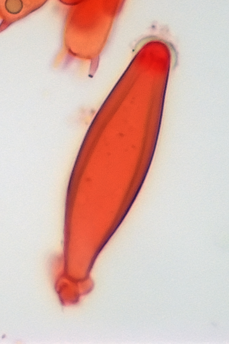 Metuloid cystidium stained with Congo red, Inocybe sp. Bright field micrograph, 63X objective, taken with Zeiss AxioImager microscope and Zeiss Axiocam camera, Merritt College microscopy lab, Oakland, CA. Mushroom sample gathered at Point Reyes National Seashore as part of Bay Area Mycological Society foray.